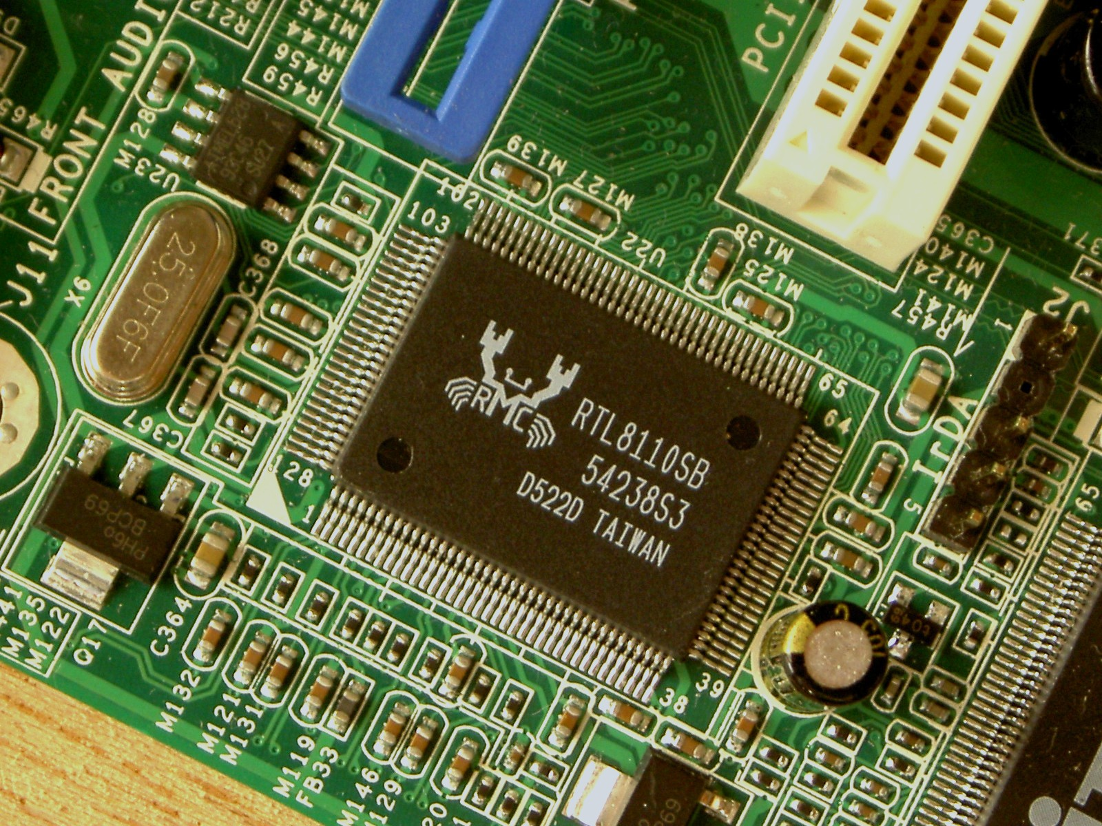 Realtek RTL8110SB 1000BASE-T Ethernet Controller